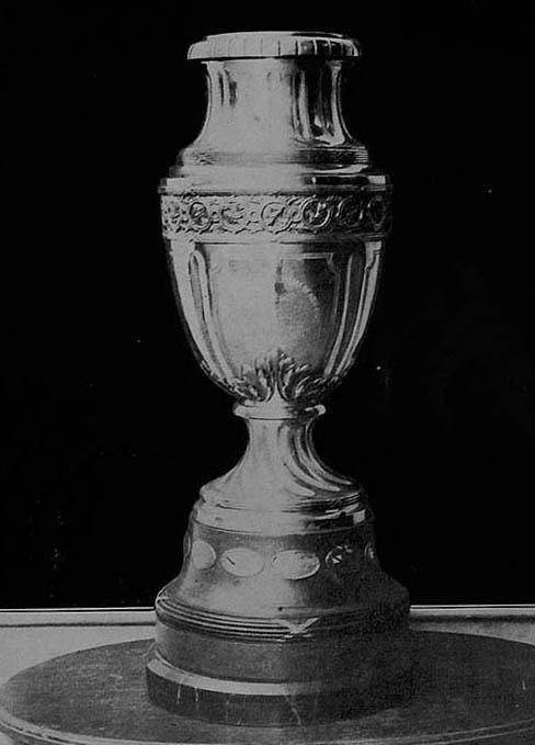 Campeonato Sudamericano de Selecciones 1927: trophy given to the Argentine football federation after the Argentine national football team won the tournament.